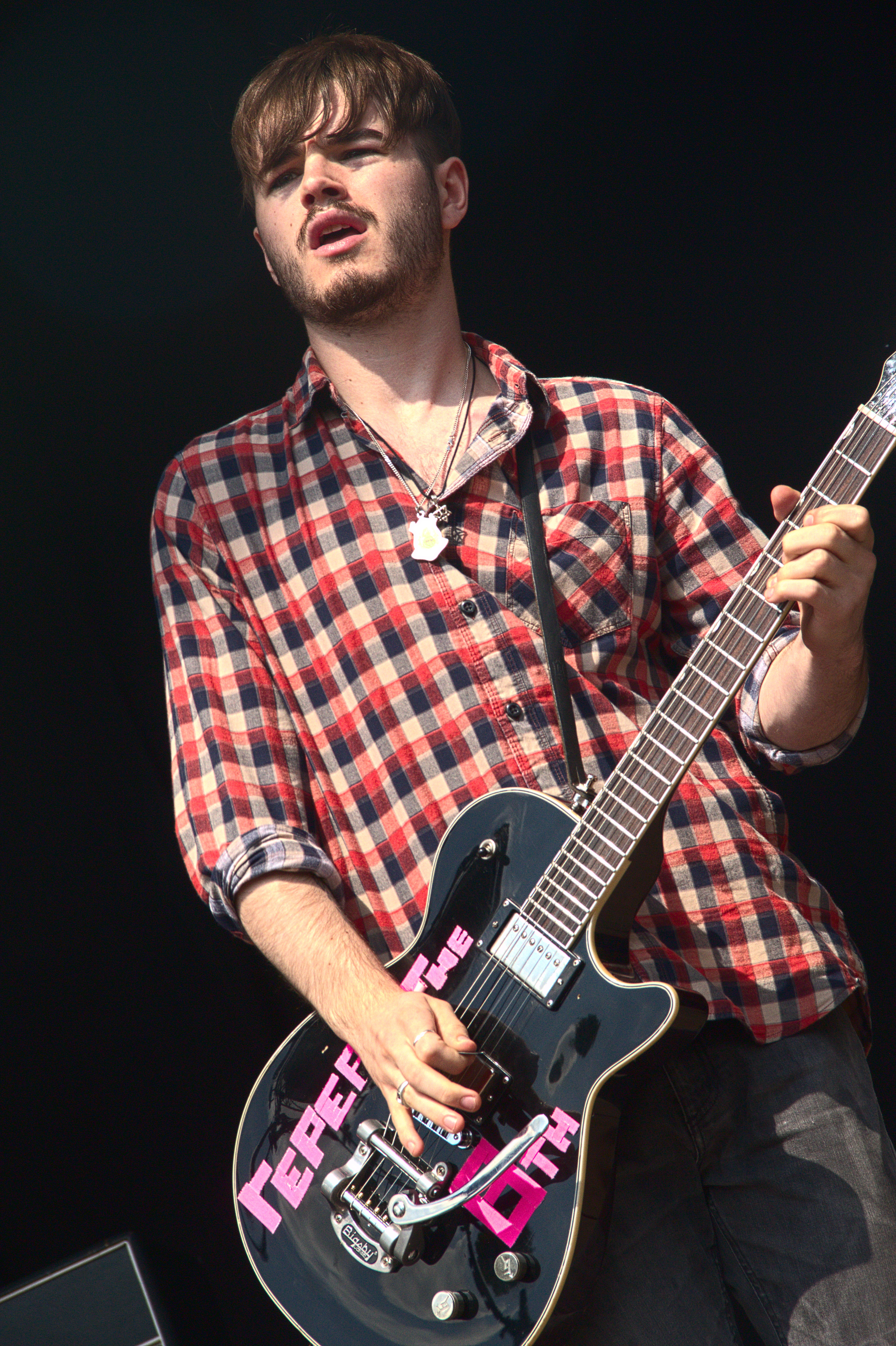 The Strypes at Haldern Pop Festival 16